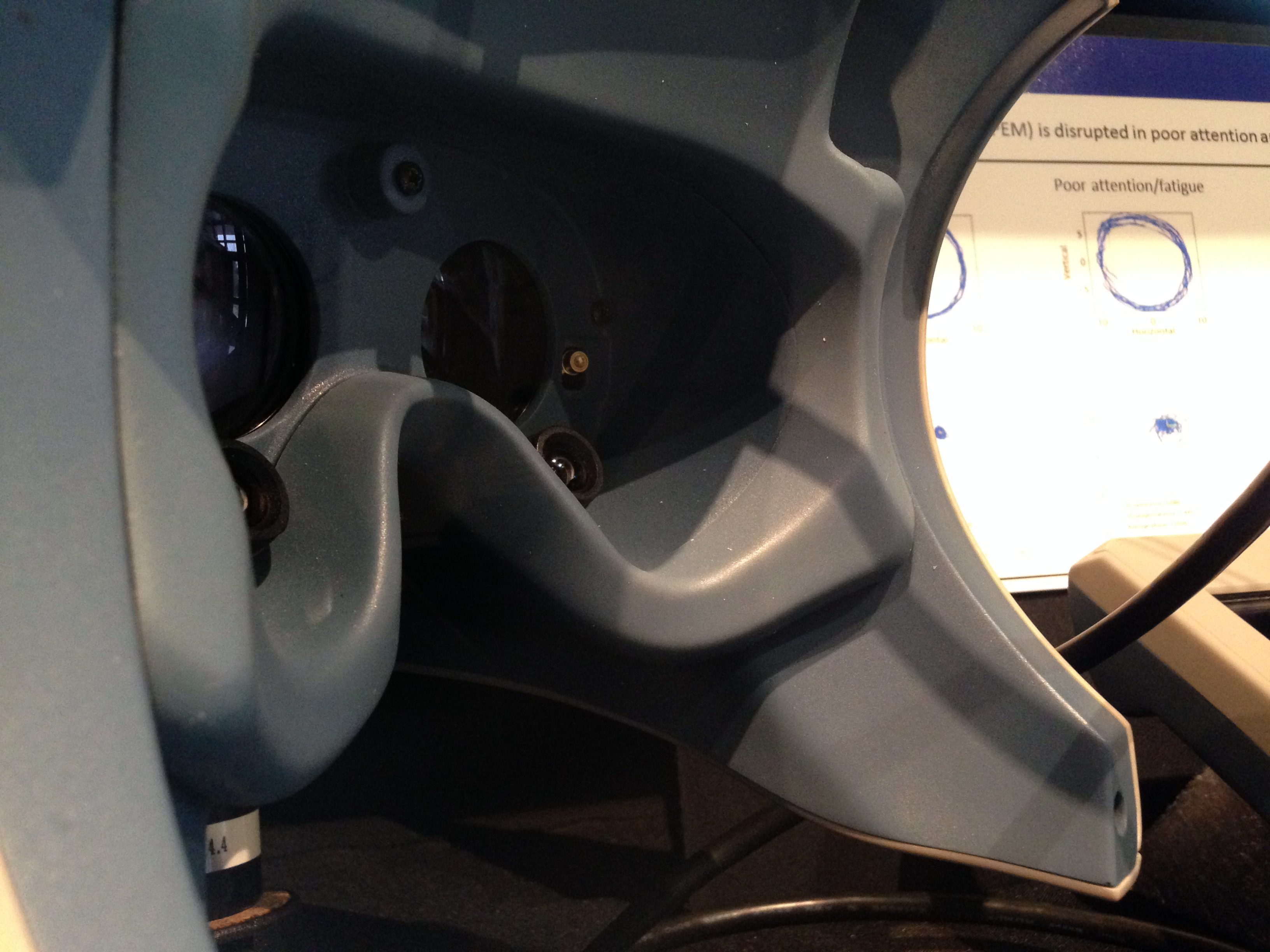 EYE-SYNC eye-tracking analyzer used as a device to detect potential cases of traumatic brain injury and concussion. On each eye there is an LED to illuminate light (located at the side next to the display lens) and a camera (located under the display lens) to continuously capture images of iris to calculate the vector between the stationary glint created by the LED illumination and the center of the iris to measure eye movements (see reference). This is part of the collections of the National Museum of Health and Medicine.